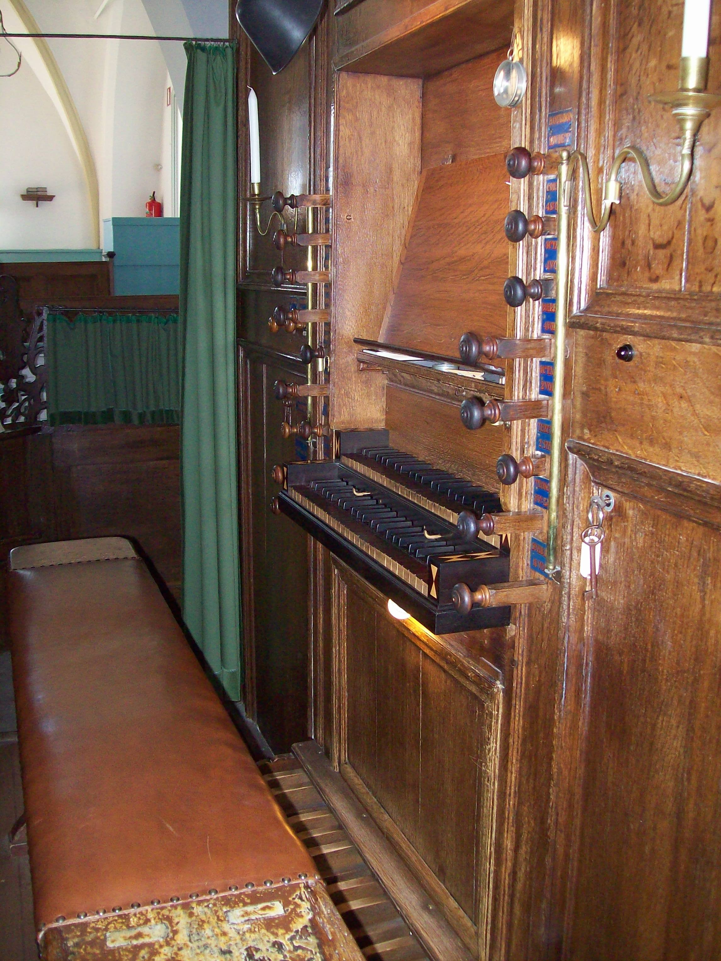 organ big church, Nijkerk (the Netherlands)